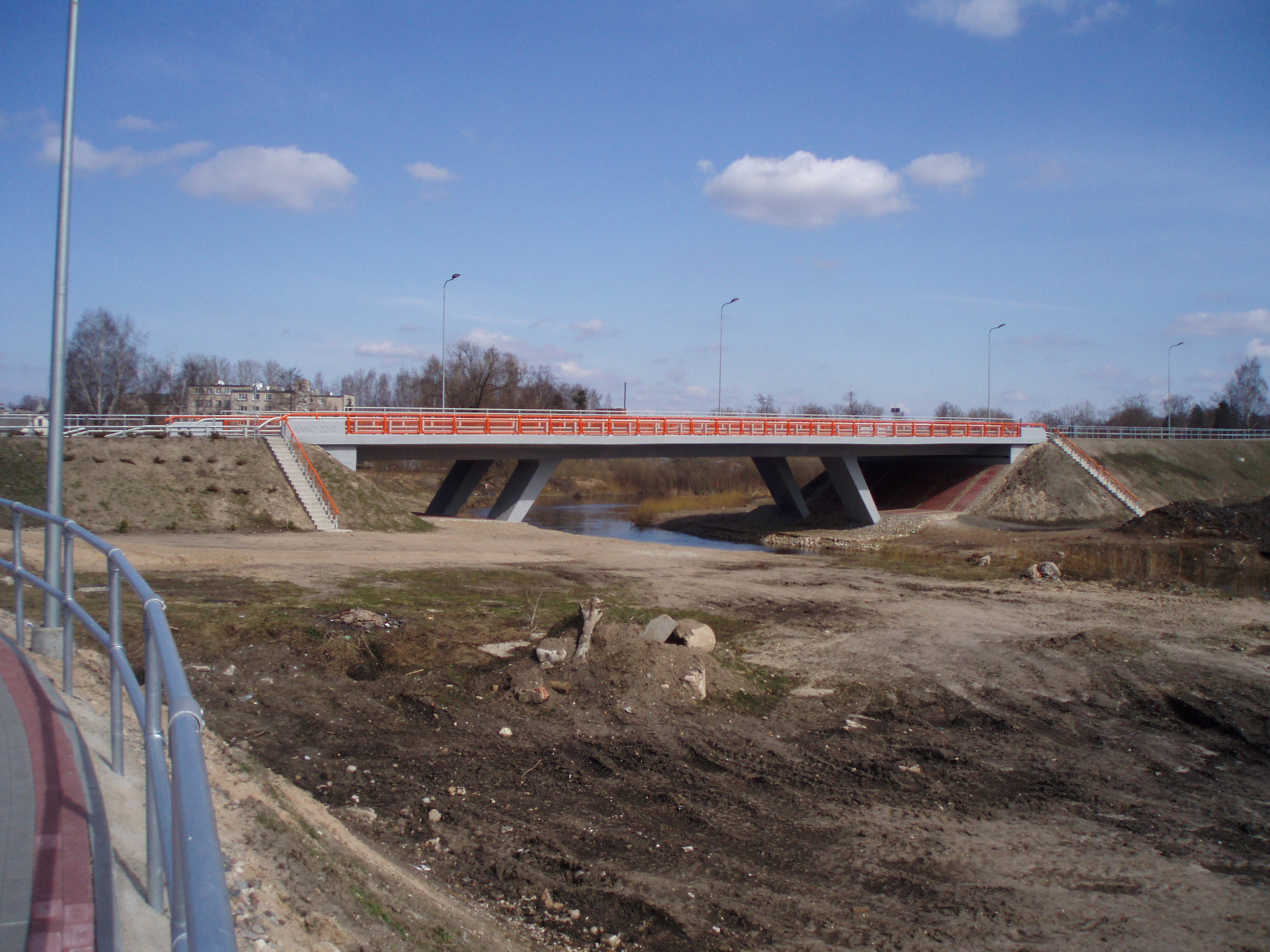 Stacijas Bridge in Rēzekne.